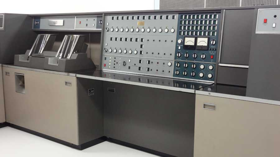 Example of an ICT 1301 installation. Located in the Toitū Otago Settlers Museum, Dunedin, New Zealand.